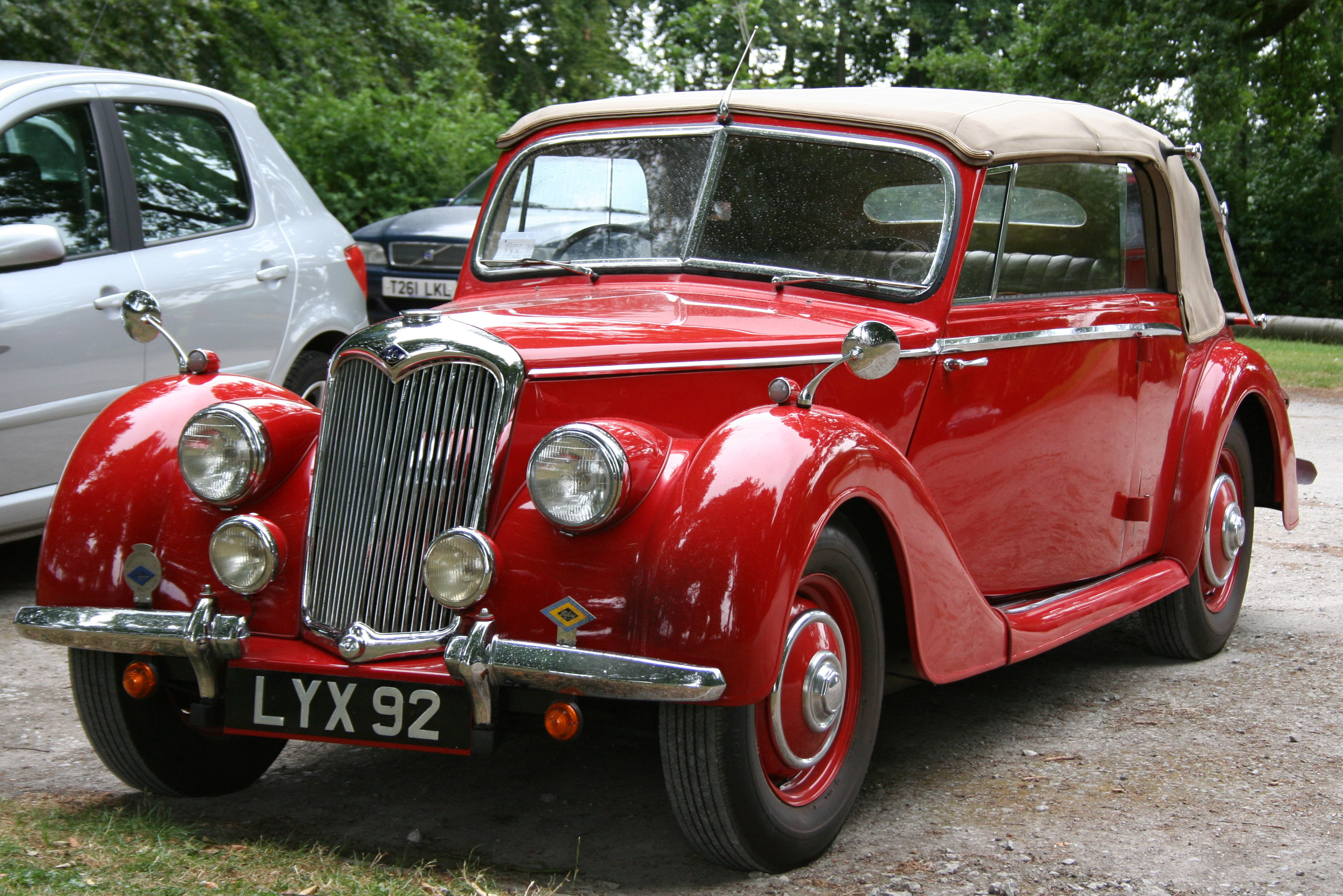 Riley RMD, photographed in the car park at Little Moreton Hall, Cheshire, England. My thanks to the car's affable owners, who told me that it was an RMD prototype, one of four built.